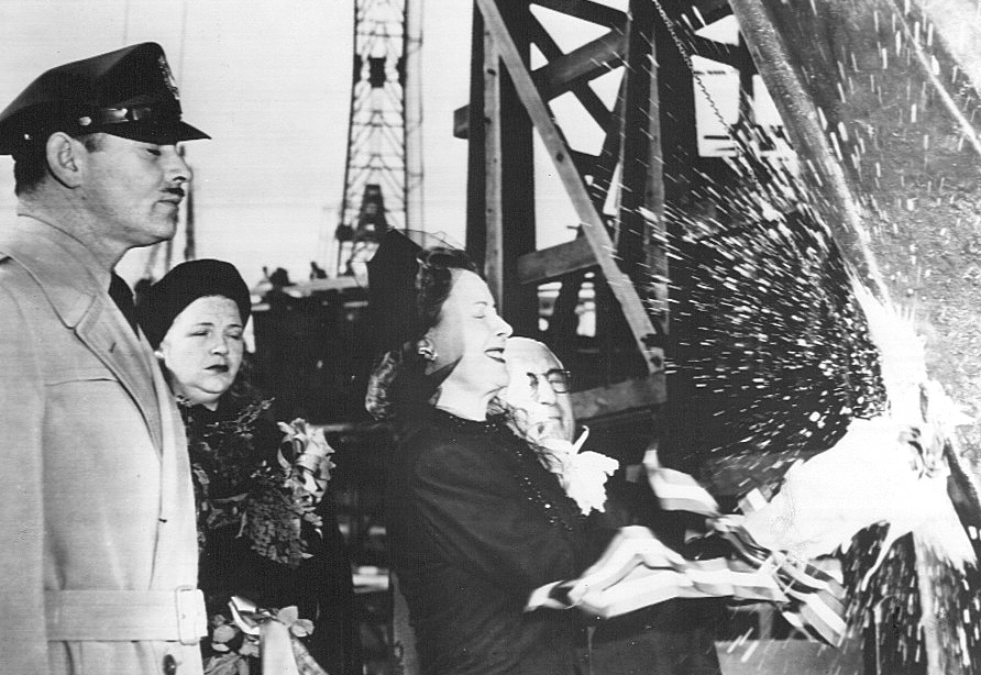 Photo of the christening of the Liberty Ship S. S. Carole Lombard on January 15, 1944; this was one day short of the second anniversary of Lombard's death in a plane crash while on a publicity tour to promote the sale of Liberty Bonds. At back are Clark Gable, now an army captain and Lombard's widower and Mrs. Walter Lang (Madalynne Field), who was Lombard's secretary. Actress Irene Dunne, who was a good friend of Lombard's, christens the ship along with Louis B. Mayer, head of MGM studios.